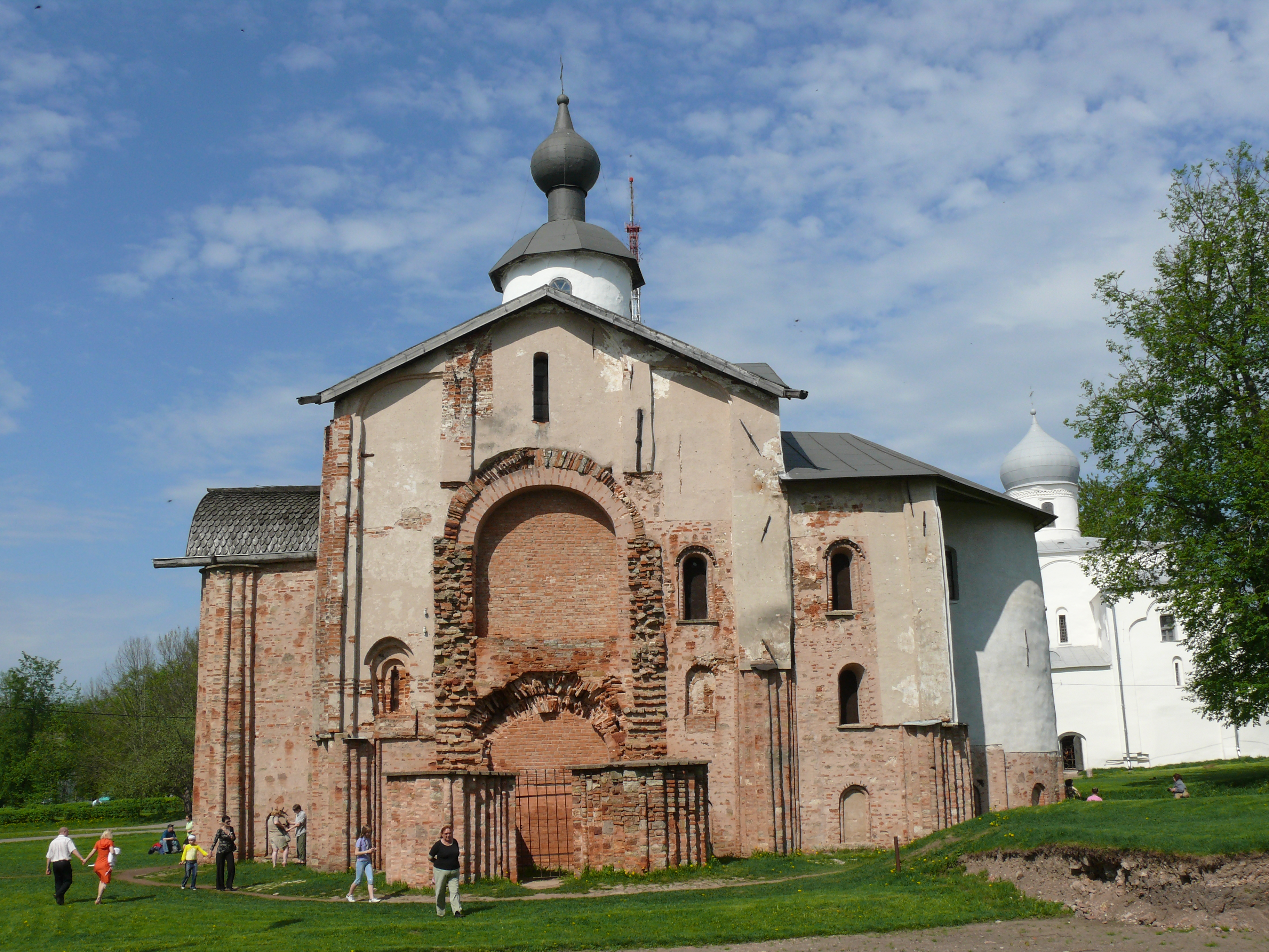 The Churche of the St. Paraskeva-Piatnitsa on Yaroslav`s Court in Veliky Novgorod, Russia